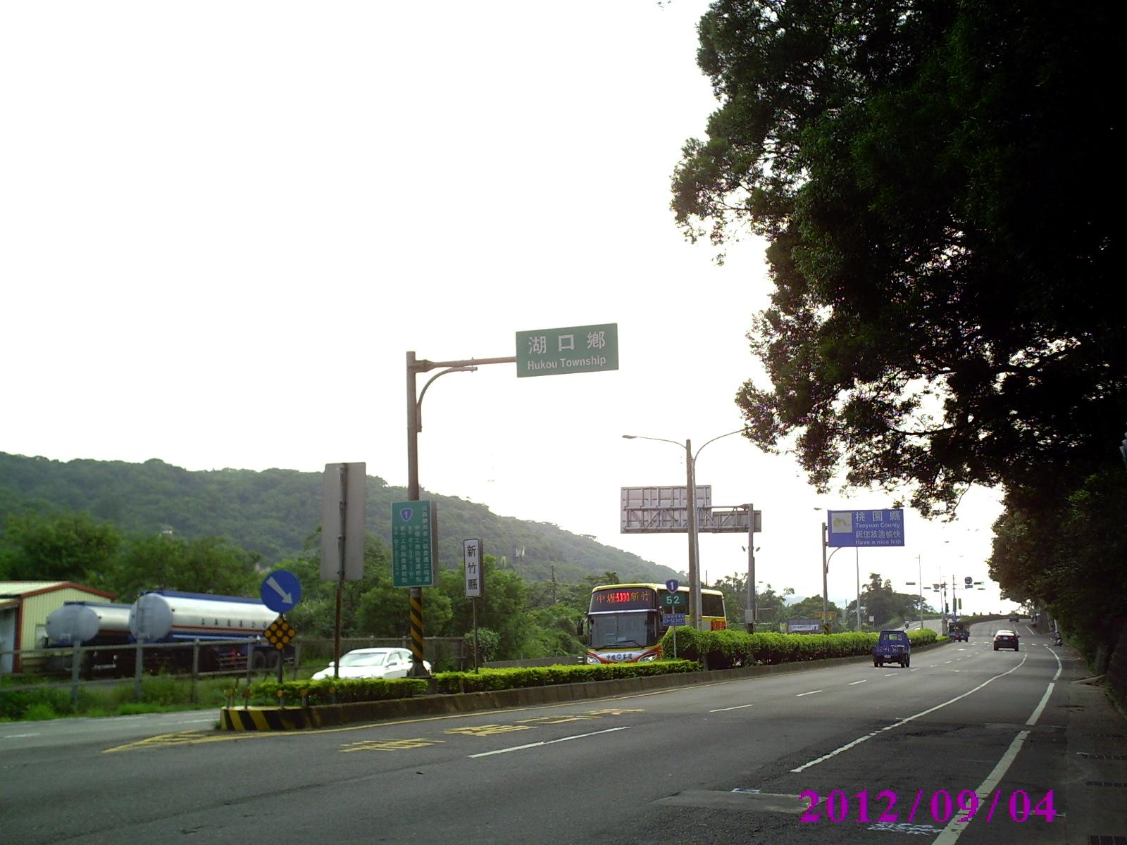 TW PHW1：the border between Taoyuan City and Hsinchu County